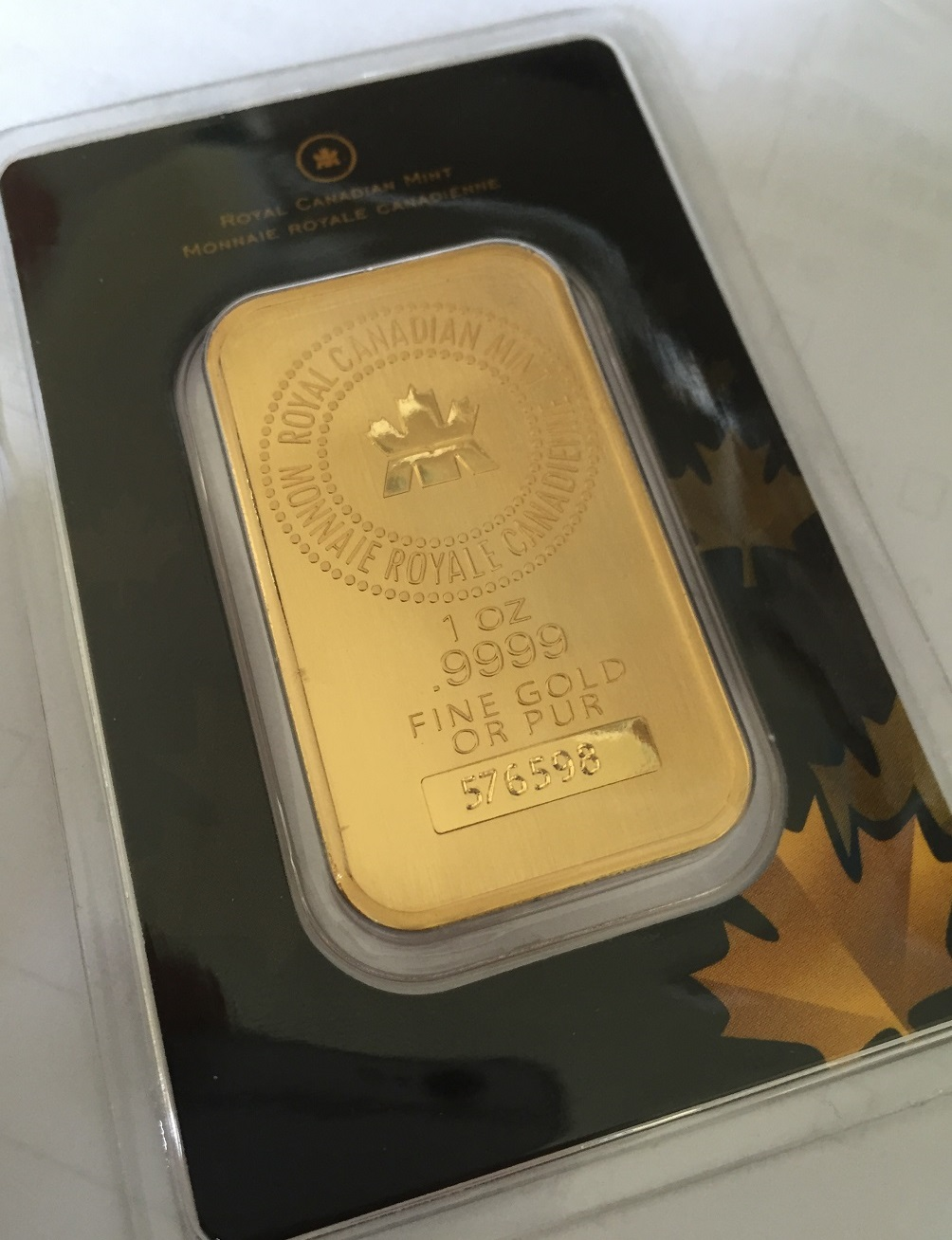 The design of Canadian gold bar.